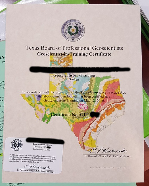 Example of a GIT Certification issued by the State of Texas